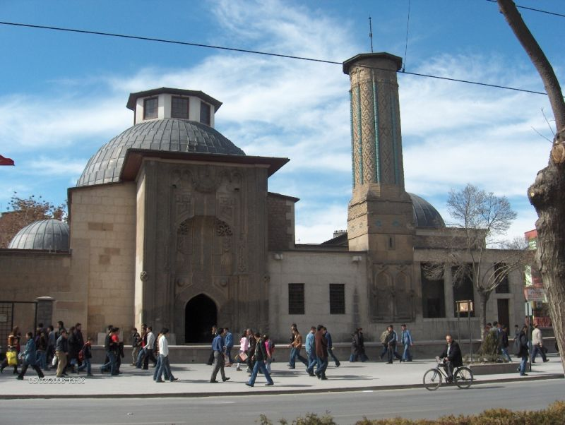 İnce Minareli Medrese. Ince Minaret Medrese, front facade.